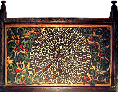 Erhart Falckener's "Gerechtigkeitsspirale" - text spiral decorated panel of late gothic pew in St. Valentin, Kiedrich (Germany)